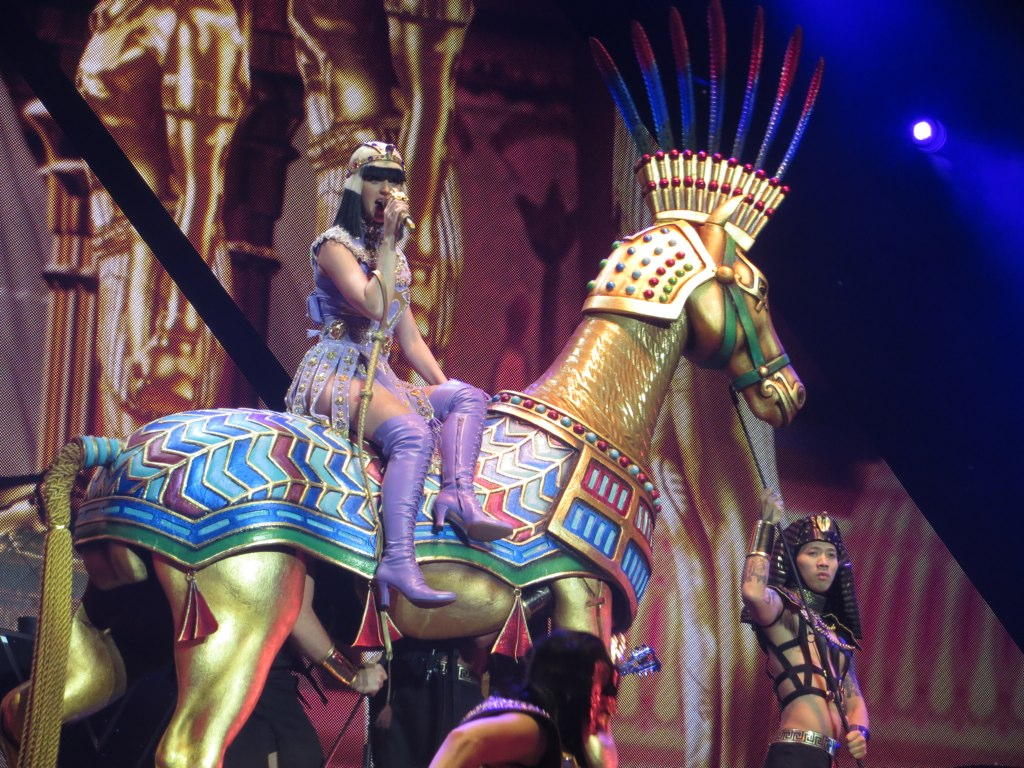 Katy Perry performing "Dark Horse" at SEE Hydro in Glasgow in May 17, 2014.